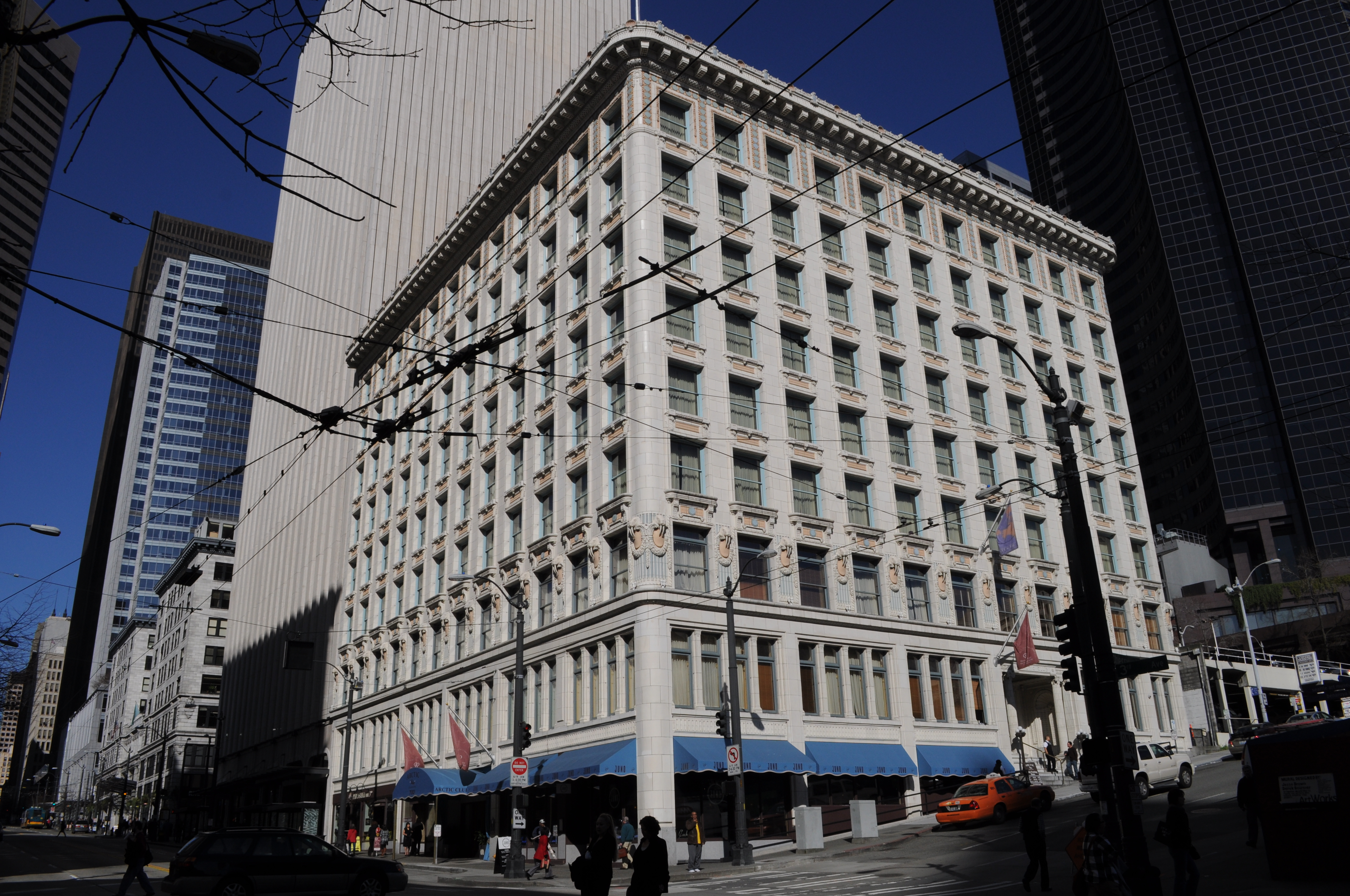 The terracotta-covered Arctic Building, 306 Cherry Street, Seattle, Washington, USA. The building, designed originally by A. Warren Gould as the Arctic Club was recently turned into a hotel, and is on the National Register of Historic Places, ID #78002749.